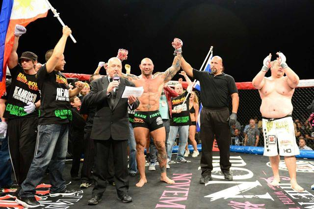 MMA CES 12